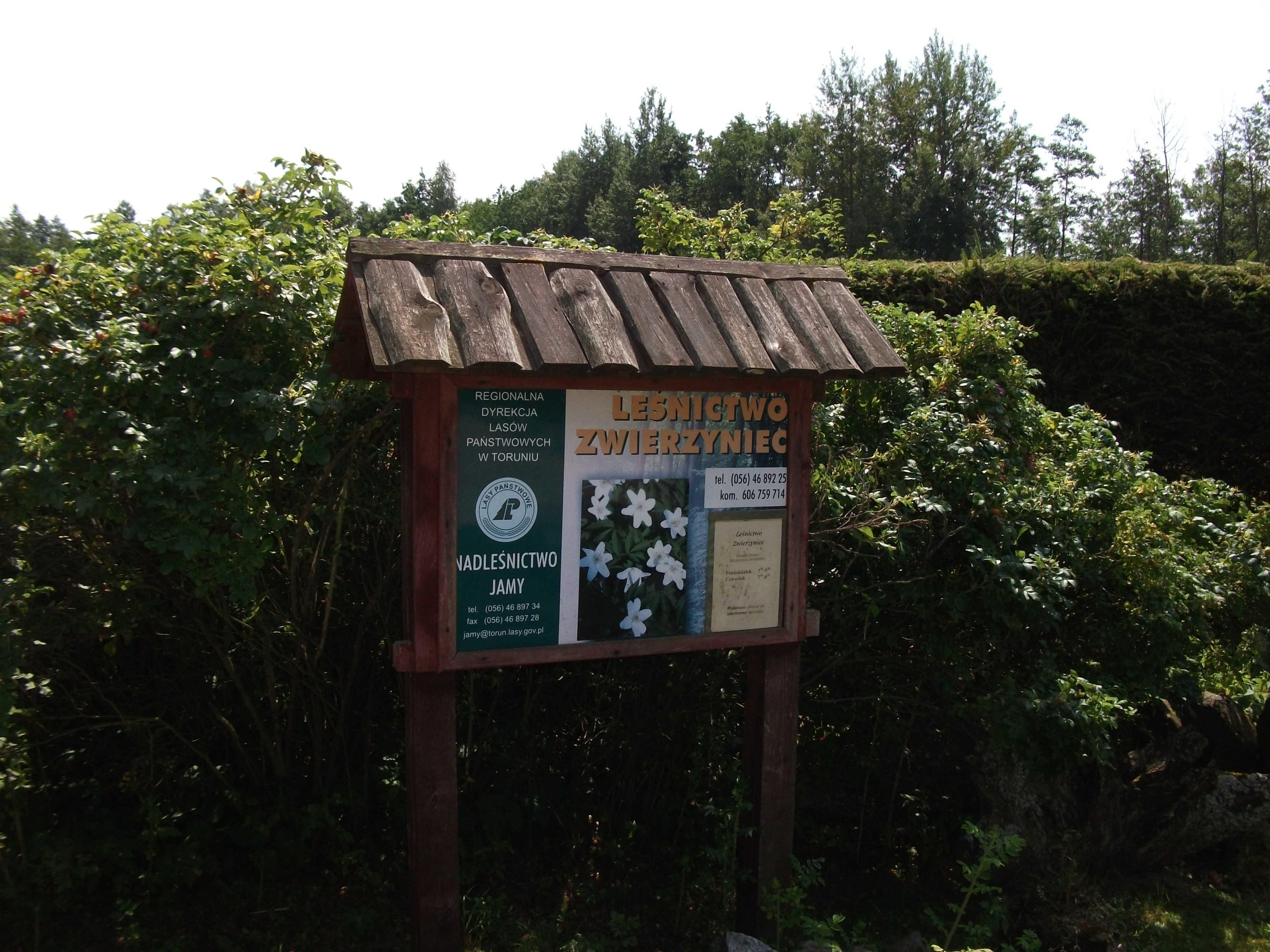 Zwierzyniec, Grudziądz county